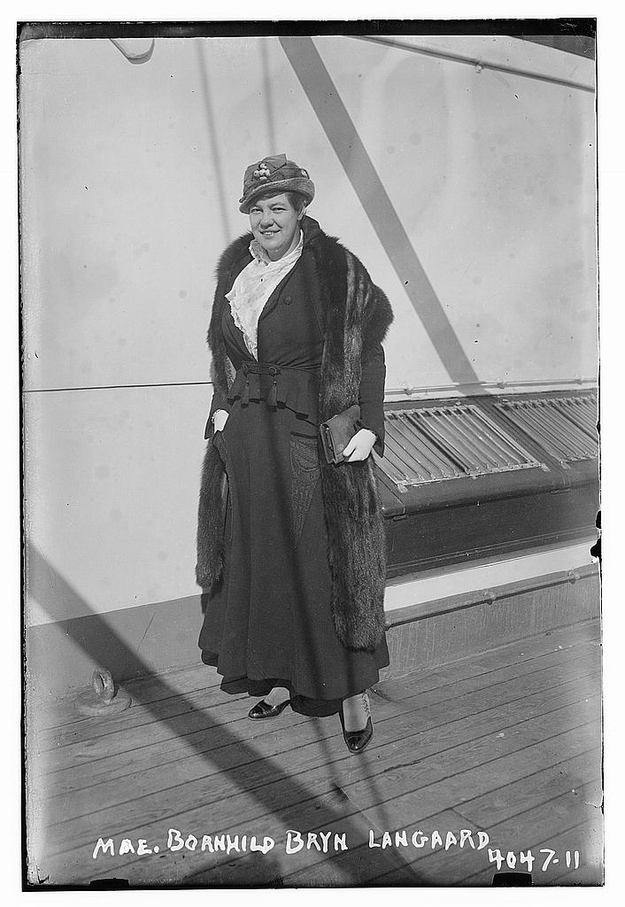 Bornhild Bryn Langaard in 1916